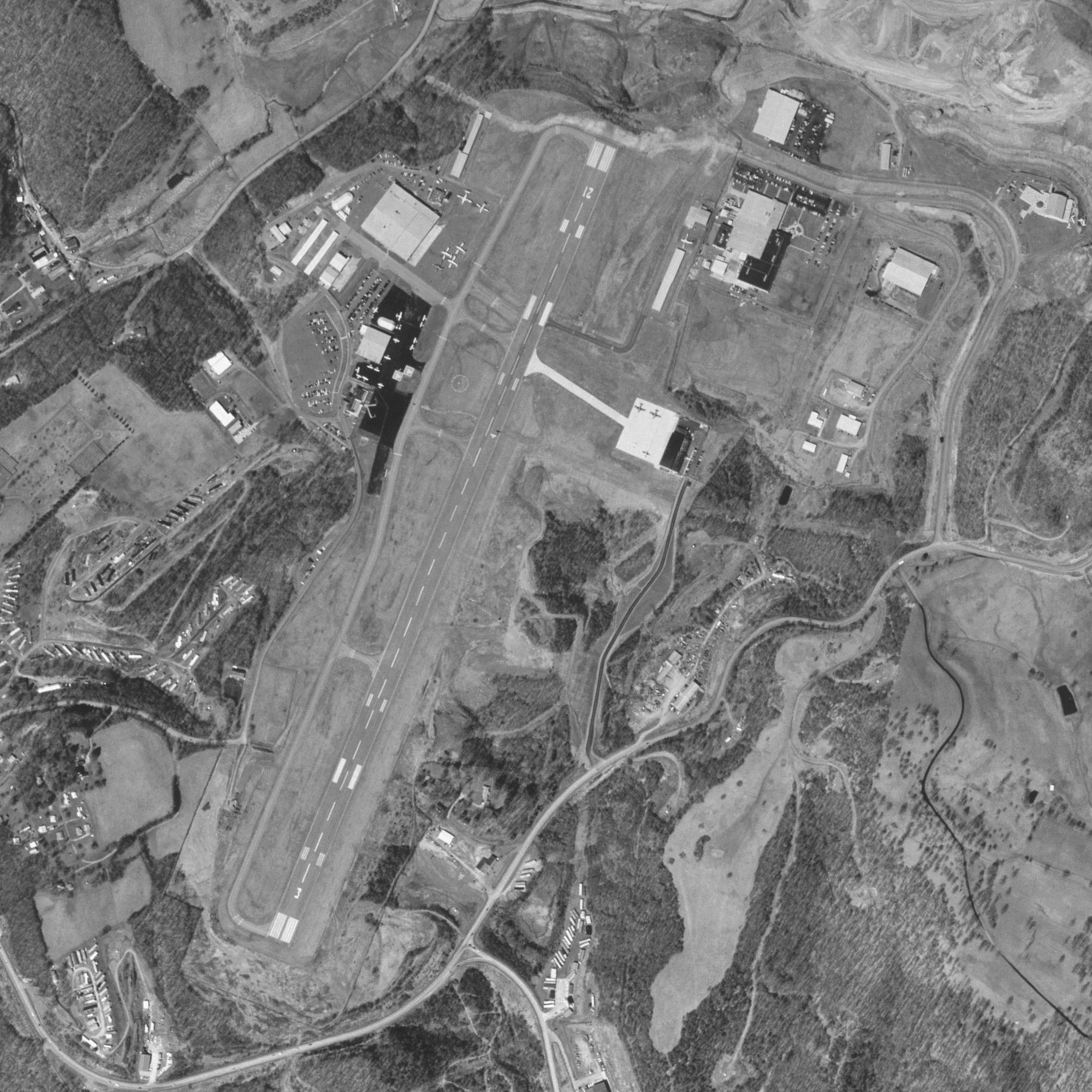 Aerial photo of North Central West Virginia Airport in West Virginia, United States.